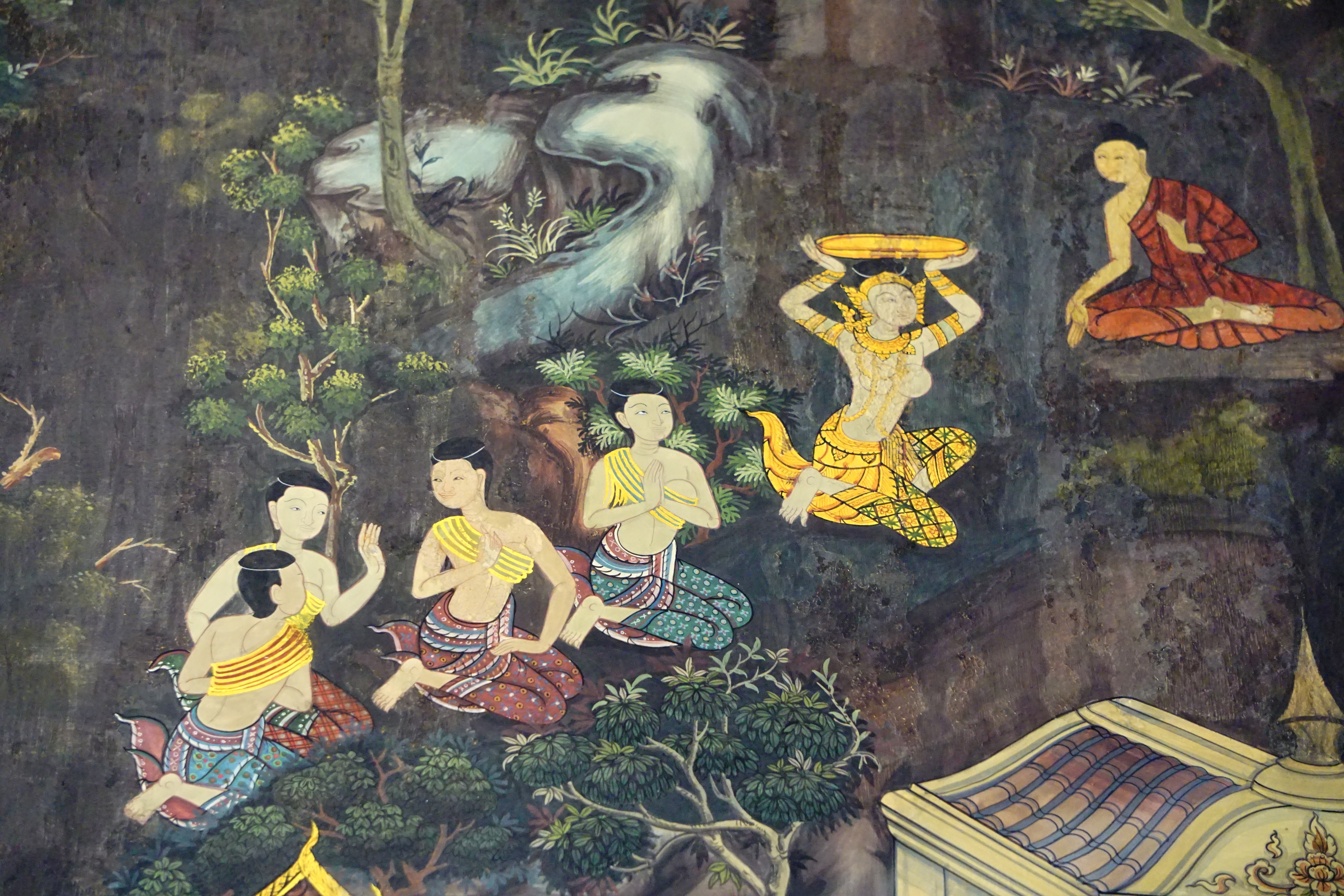 Sujata in Wat Pho